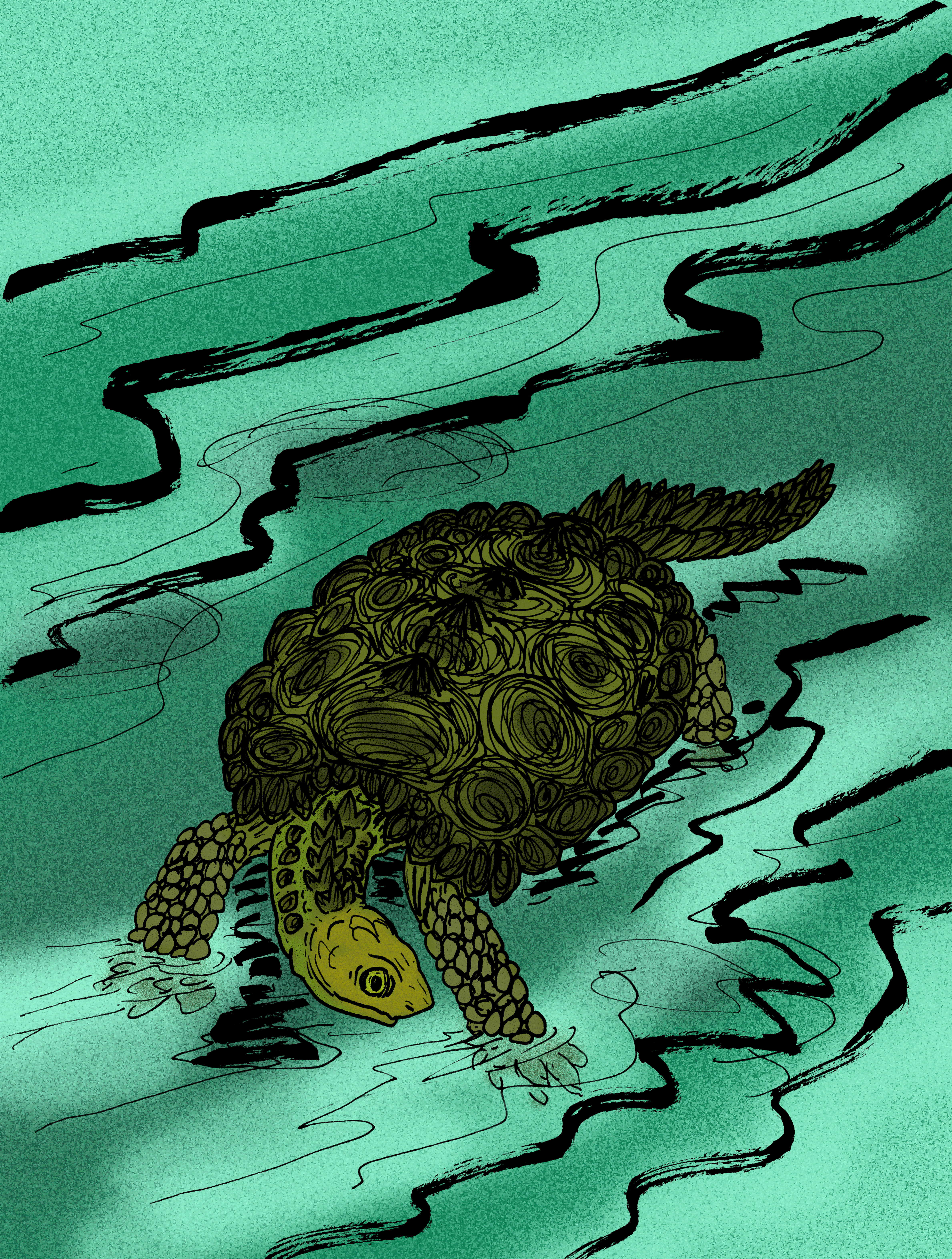 Reconstruction of the early turtle, Proganochelys quenstedtii, from the Triassic